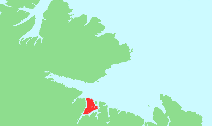 Locator map of Skogerøya, Finnmark, Norway